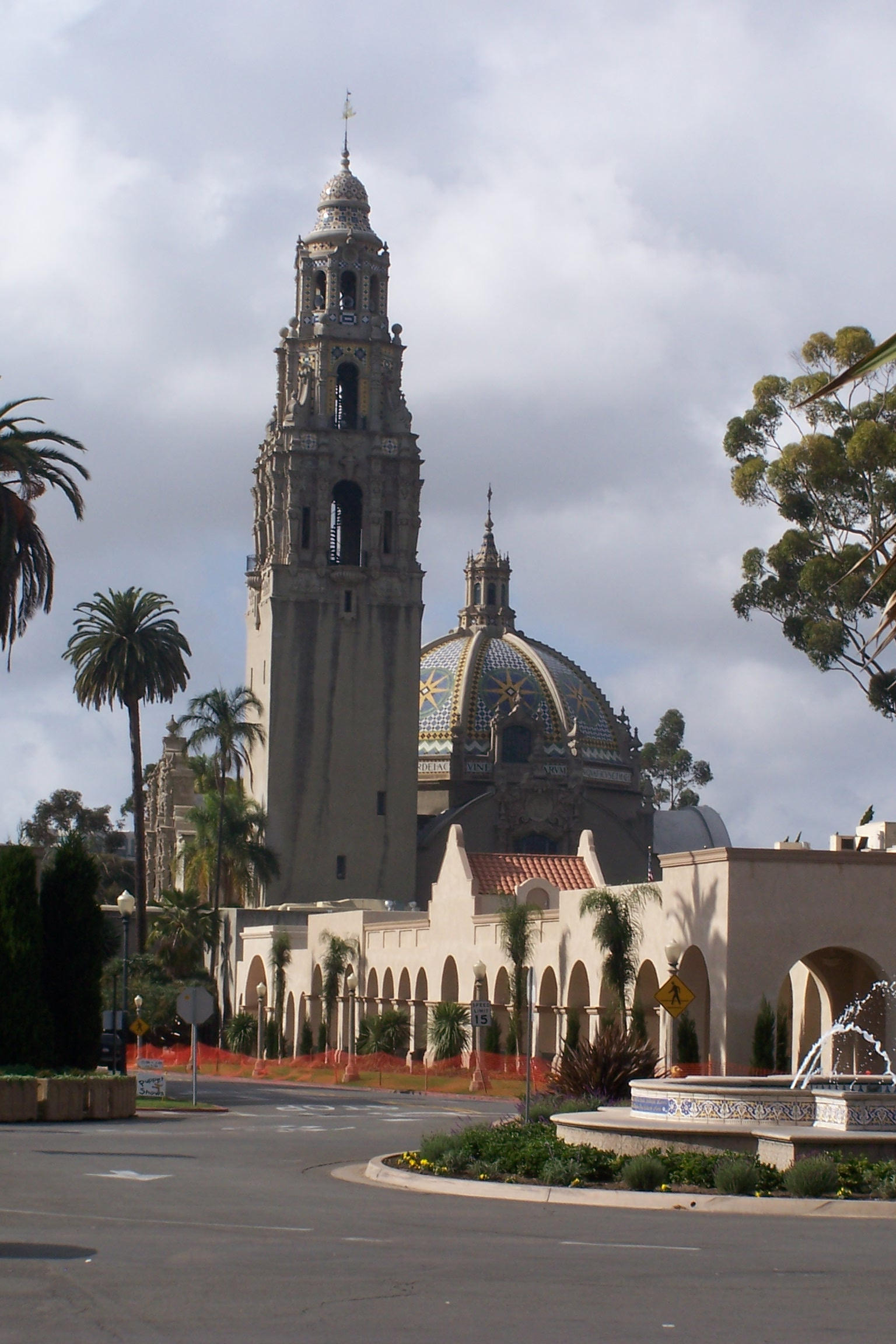 The Museum of Man in Balboa Park, San Diego.